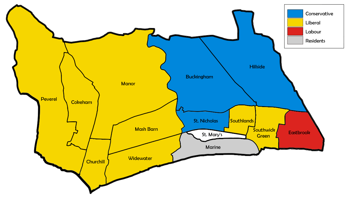 Ward map of Adur council with political colouring for the 1980 election.